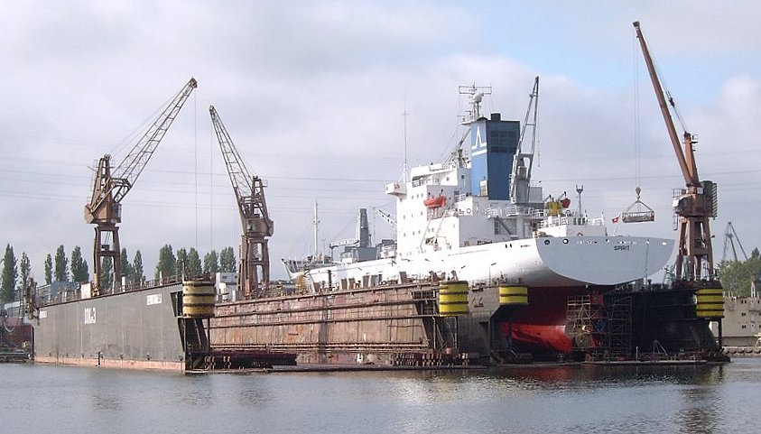 Floating docks of Remontowa Shiprepair Yard in Gdansk, Poland. Name: Sprint(?) Ship type: CARGO